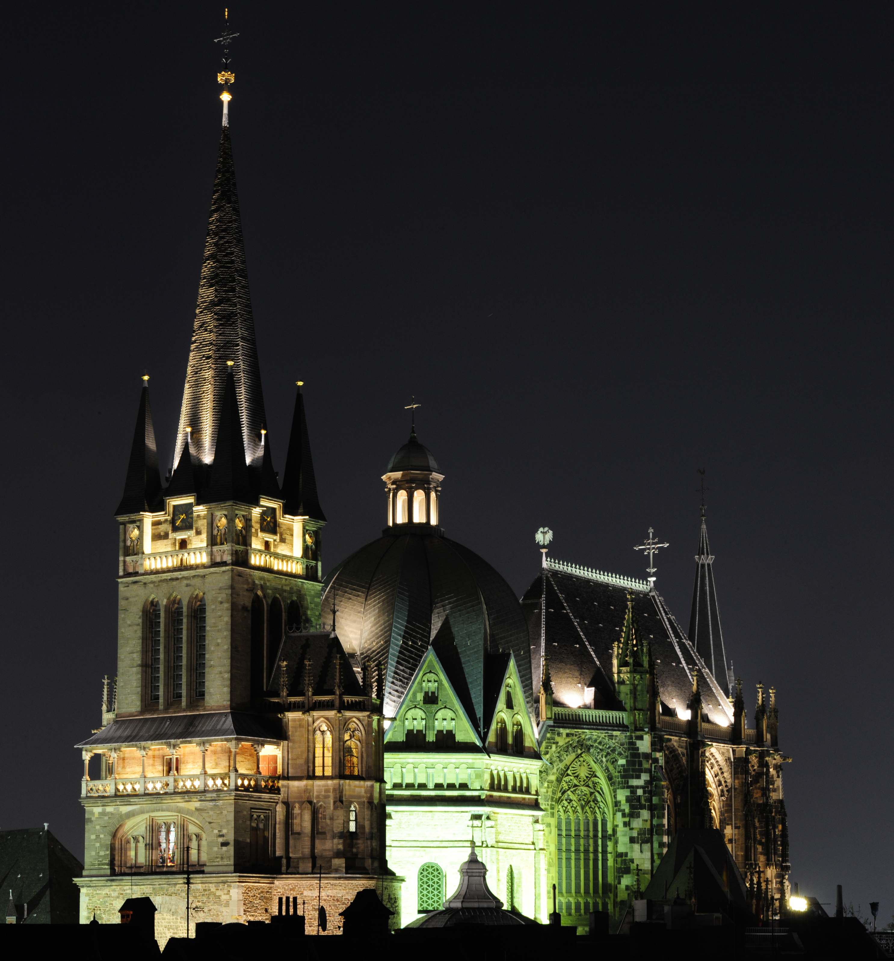 Aachen Cathedral at night as seen from Annastraße